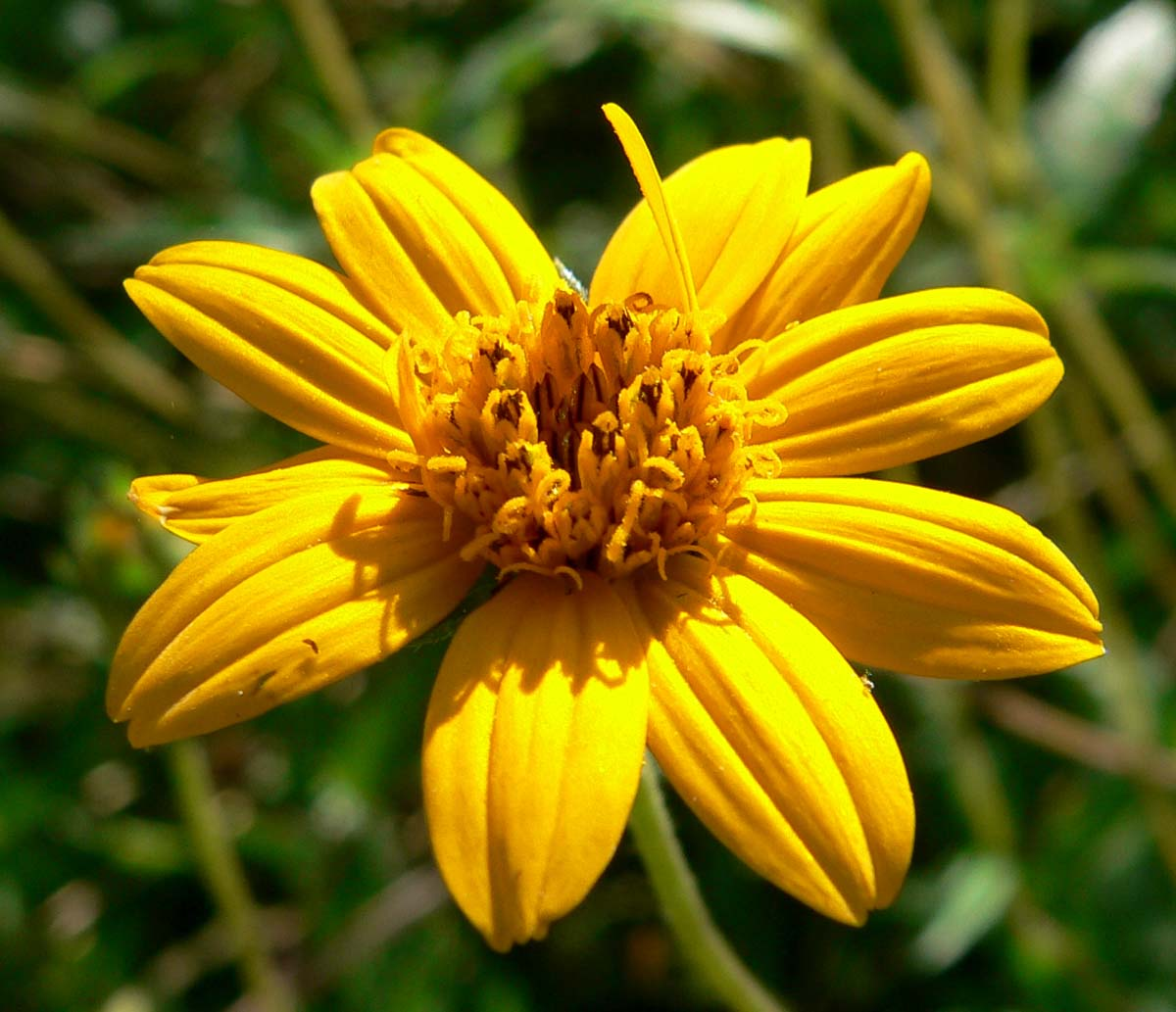 Photo of Wedelia hispida at the Springs Preserve garden in Las Vegas, Nevada